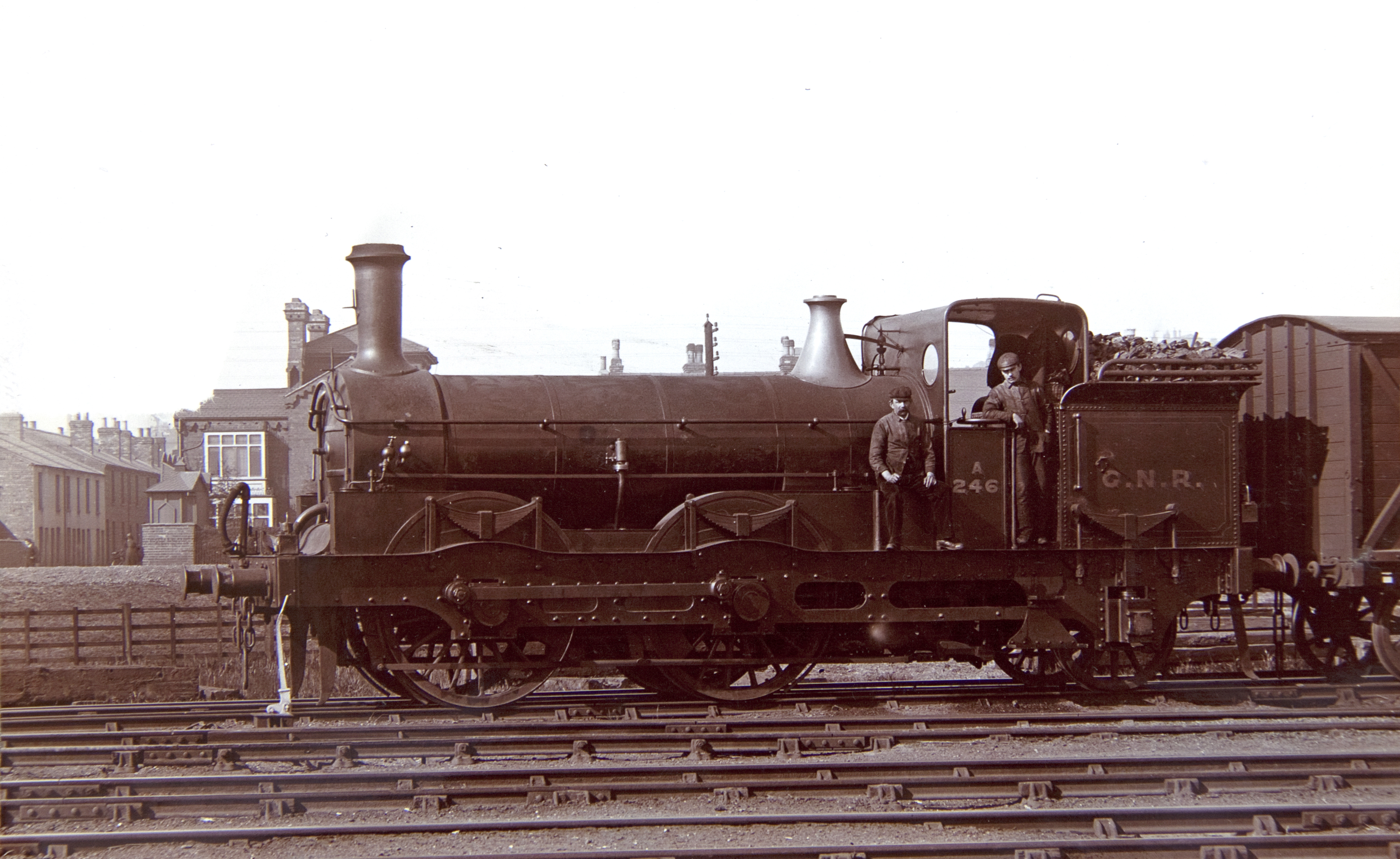 A Sturrock 0-4-2 suburban Tank Engine built for the Great Northern Railway in 1865 This photo was taken from an old original photo we came across while helping to clear the house of a deceased friend. I have uploaded it to Flickr in the hope that it might be interesting to steam enthusiasts.